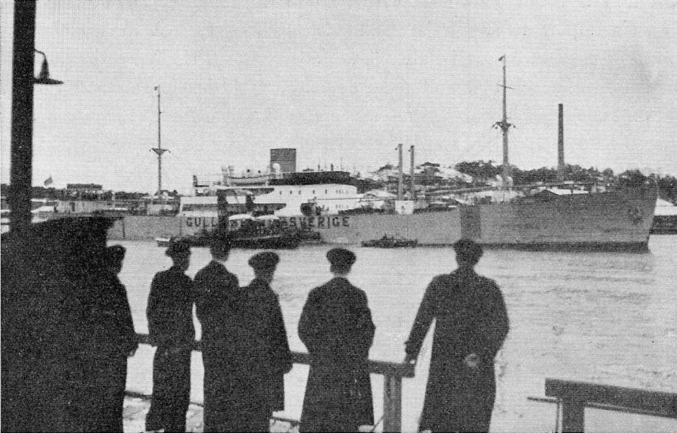 M/S Gullmaren arrives to Gothenburg in 1940.